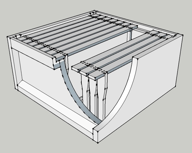 BS National standard broodbox cutaway to show frames (two removed for clarity)